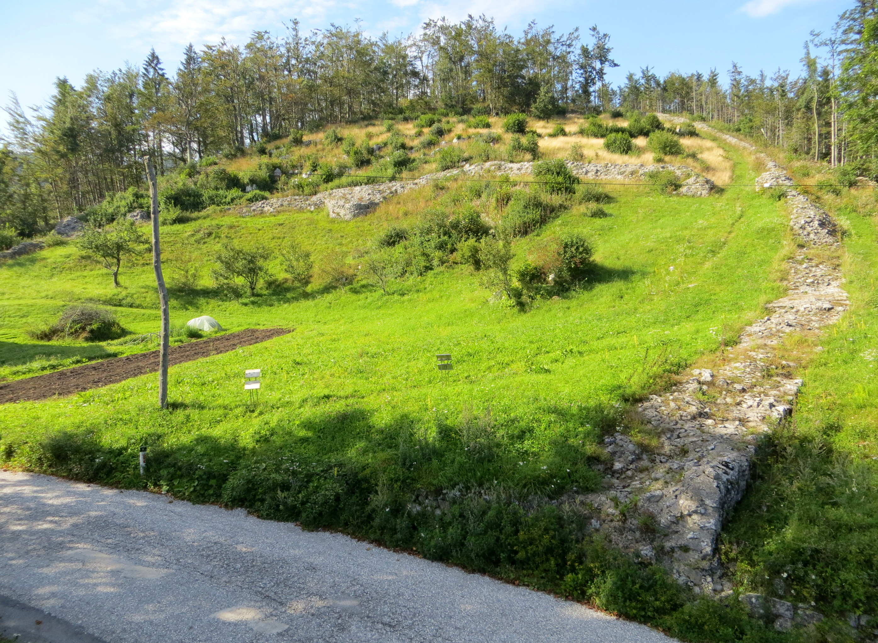 Remnants of the Roman fortress of Ad Pirum in the hamlet of Hrušica in Podkraj, Municipality of Ajdovščina, Slovenia